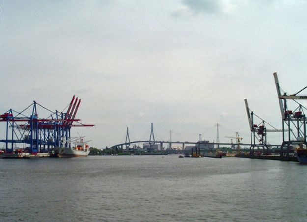 Port of Hamburg.